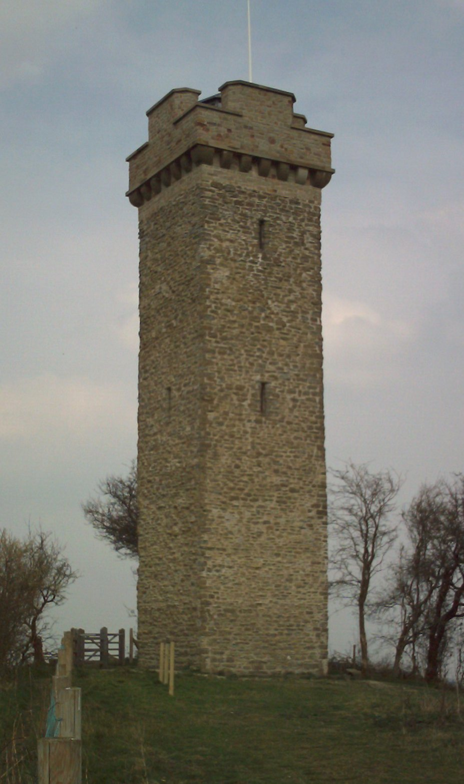 Taken by myself, 13/04/2007